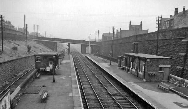 Brightside Station View NE, towards Rotherham (Masborough), Leeds/York; ex-Midland Sheffield - Leeds/York etc. main line. This one of the two main lines that run through the Don Valley between Sheffield and Rotherham, passing through a succession of great steelworks and associated industry. Both the ex-Midland (here) and the ex-Great Central lines were immensely busy with freight traffic and heaven to the 'train-watcher' if to no one else. Brightside station was not closed until quite recently (30/1/95) when Meadowhall Interchange and the Sheffield Super-Tram supplanted it.